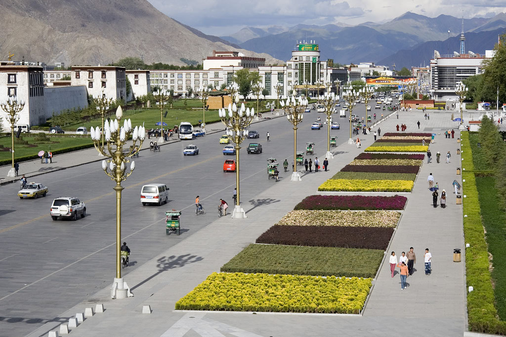 Dekyi Shar Lam, the chinese main road in Lhasa, Tibet.